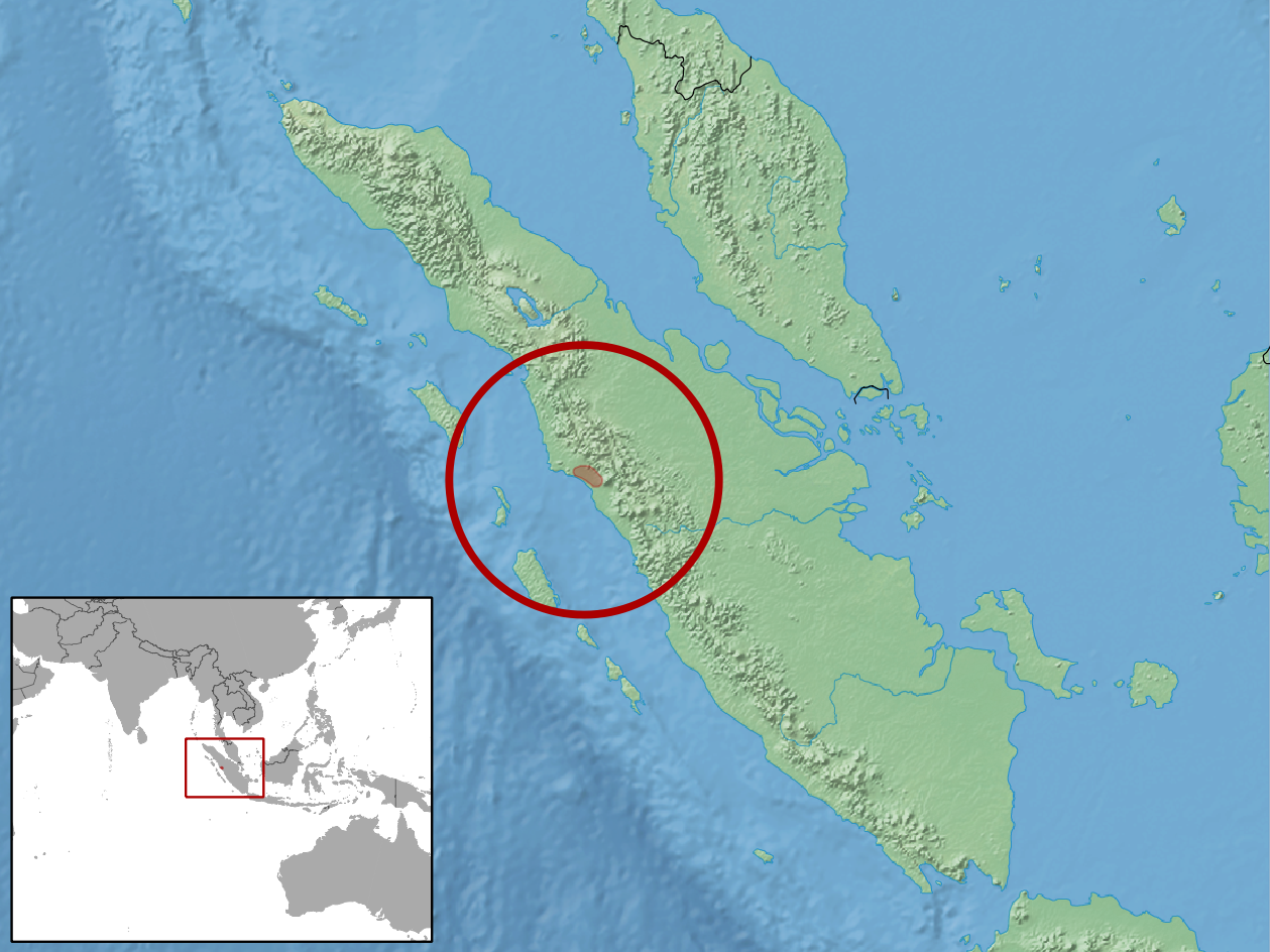 geographic distribution of Larutia sumatrensis